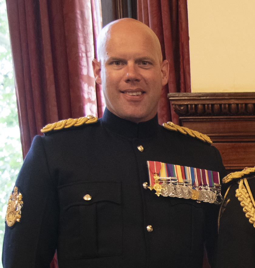 U.K. Warrant Officer Class One Glenn Haughton, senior enlisted advisor to the Chiefs of Staff Committee, U.K. Gen. Sir Nicholas Carter, Chief of the Defense Staff, U.S. Marine Corps Gen. Joe Dunford, chairman of the Joint Chiefs of Staff, U.S. Army Sgt. Maj. John W. Troxell, senior enlisted advisor to the chairman of the Joint Chiefs of Staff, pose for a photo before Queen Elizabeth's birthday parade, 'Trooping the Colour', in London on June 8, 2019. The ceremony of Trooping the Colour is believed to have first been performed during the reign of King Charles II. Since 1748, the Trooping of the Colour has marked the official birthday of the British Sovereign. Over 1400 parading soldiers, almost 300 horses and 400 musicians take part in the event. (DOD photo by U.S. Navy Petty Officer 1st Class Dominique A. Pineiro)